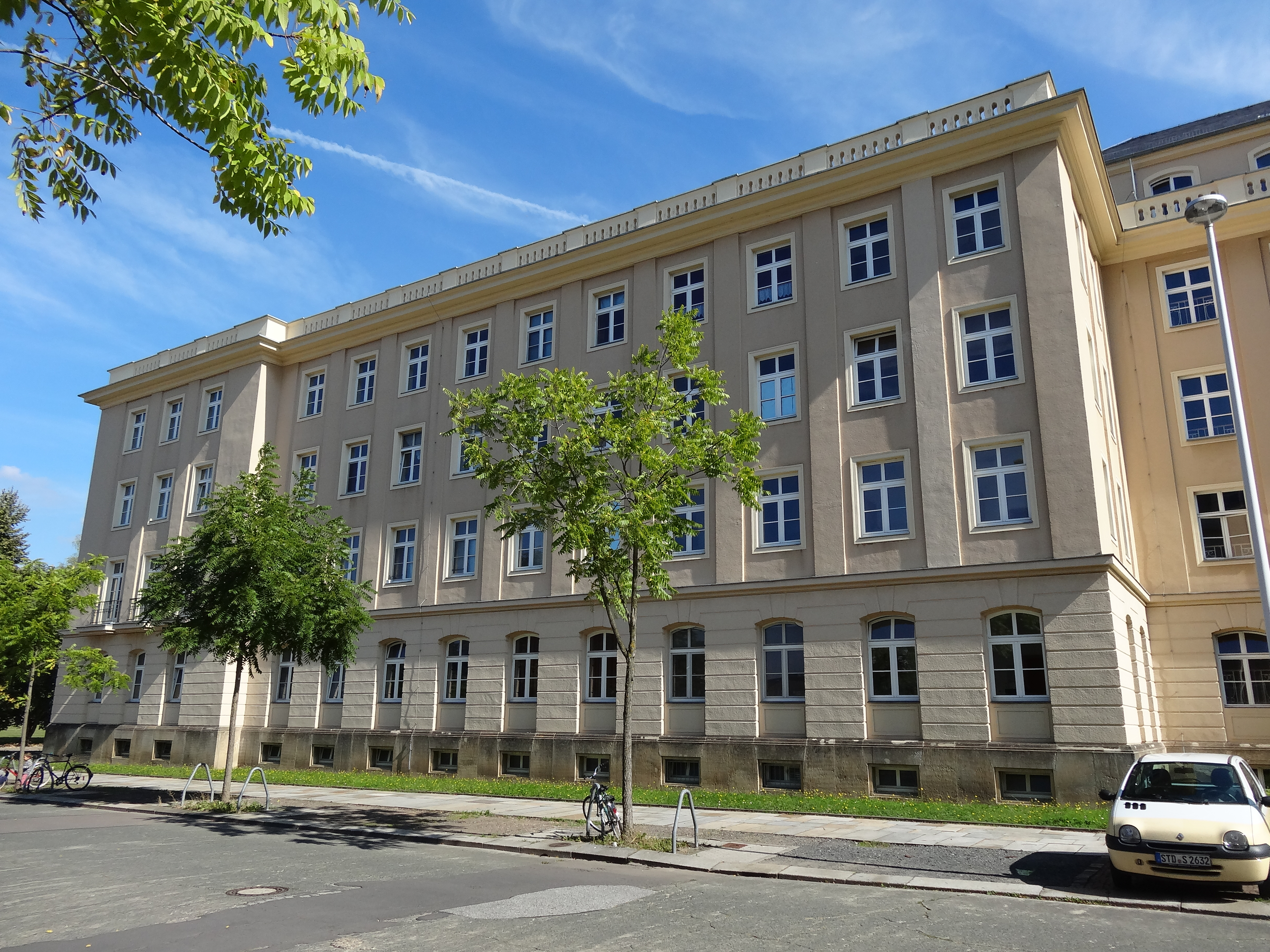 The house at Gutzkowstraße 33, in 01069 Dresden, Germany.